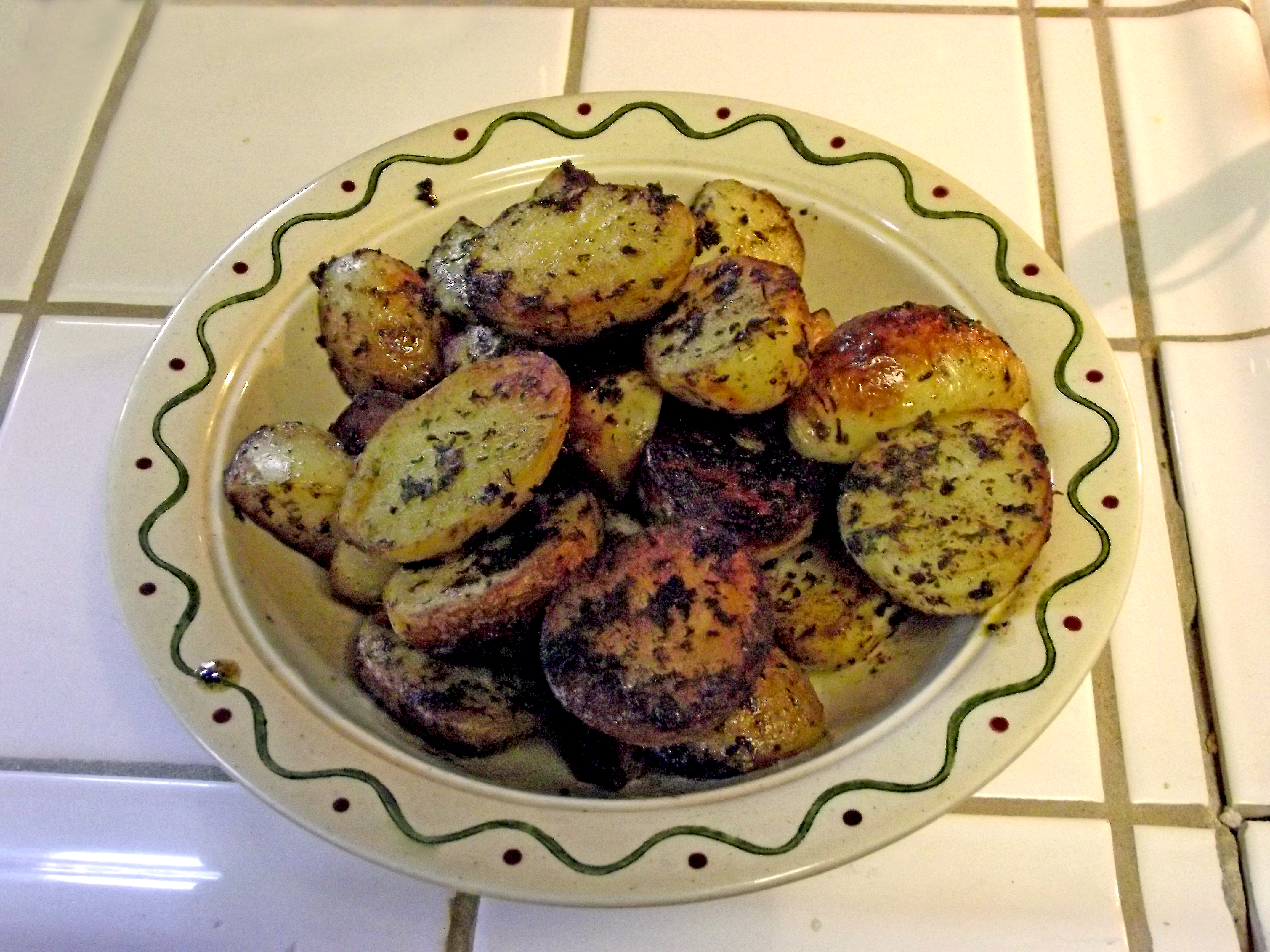 Brown butter, parsley potatoes.